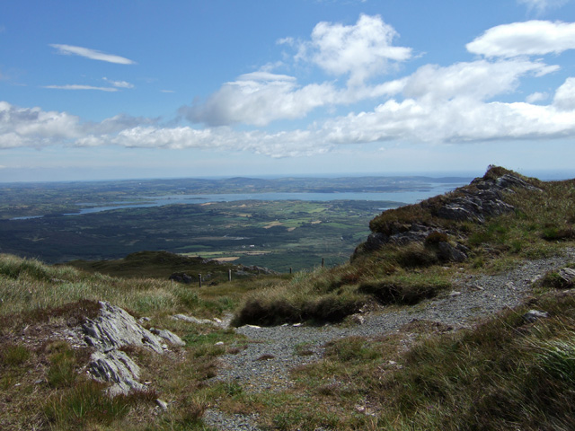 The Summit of Mount Gabriel The view from the summit in this direction is towards the waterway between Ballydehob and Roaring Water Bays. On the original image, Kilcoe Castle can just be discerned on Mannin Beg.